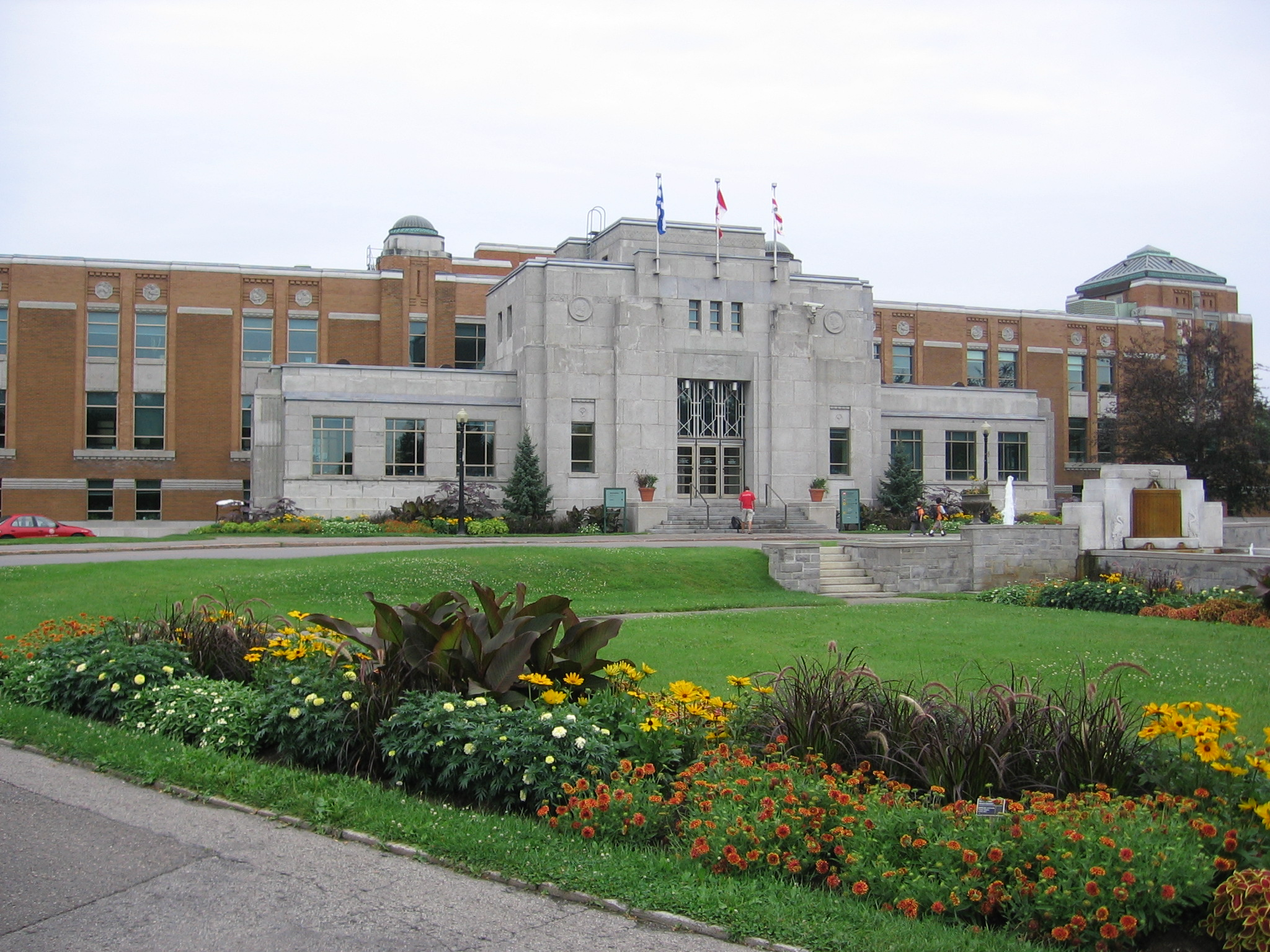 The main greenhouse near the entrance of the Montreal Botanical Gardens. My picture from summer 2005.